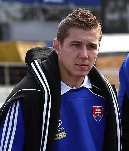 Juraj Kucka